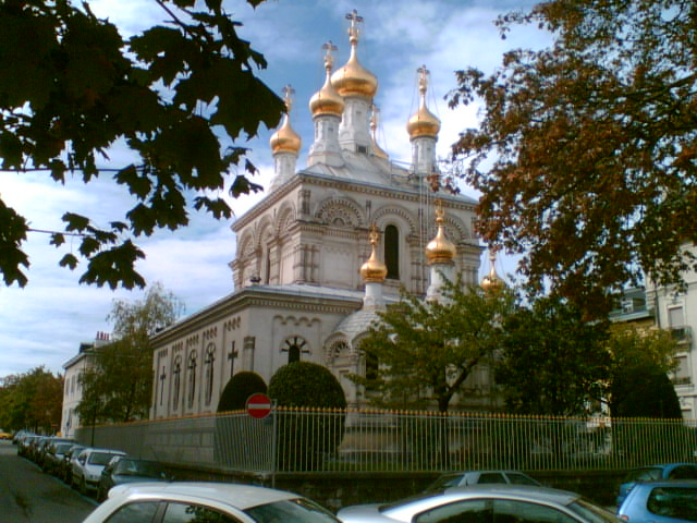 Russian Ortodox Church in Geneva